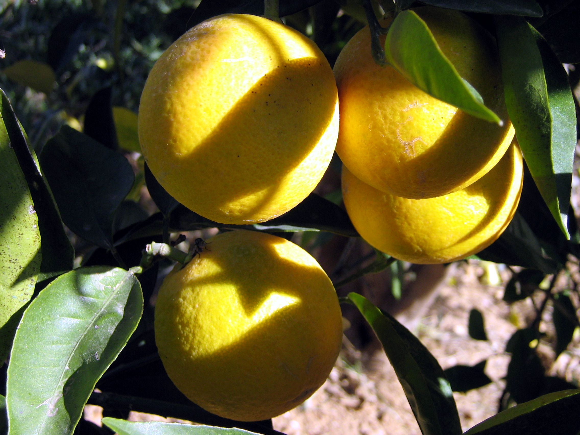 Oranges. Libya. Tripolitania.